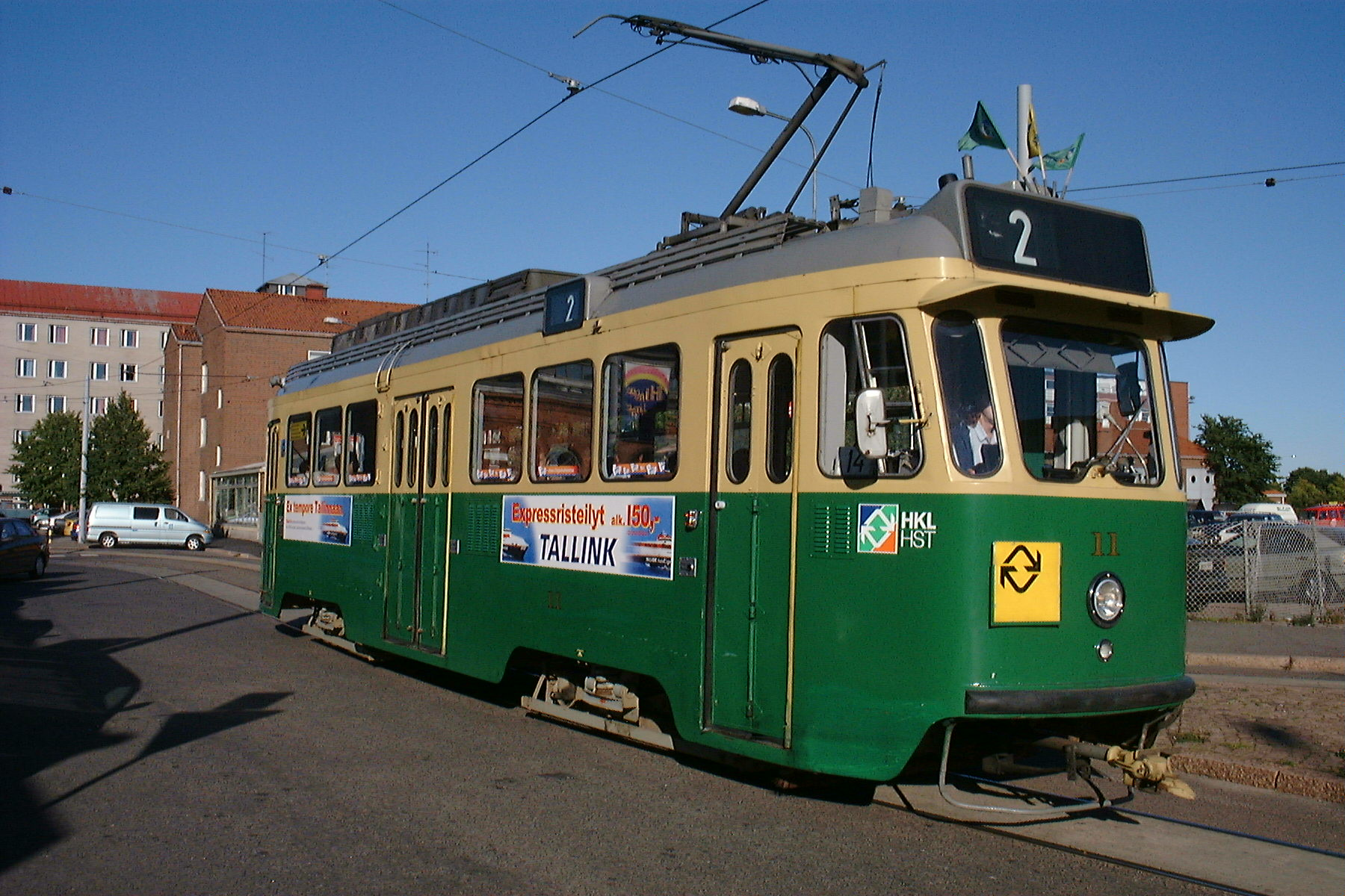 An old four-axle tram (type HM V) on line 2. Line 2 does not run anymore, its specific routing being taken over by line 4T.